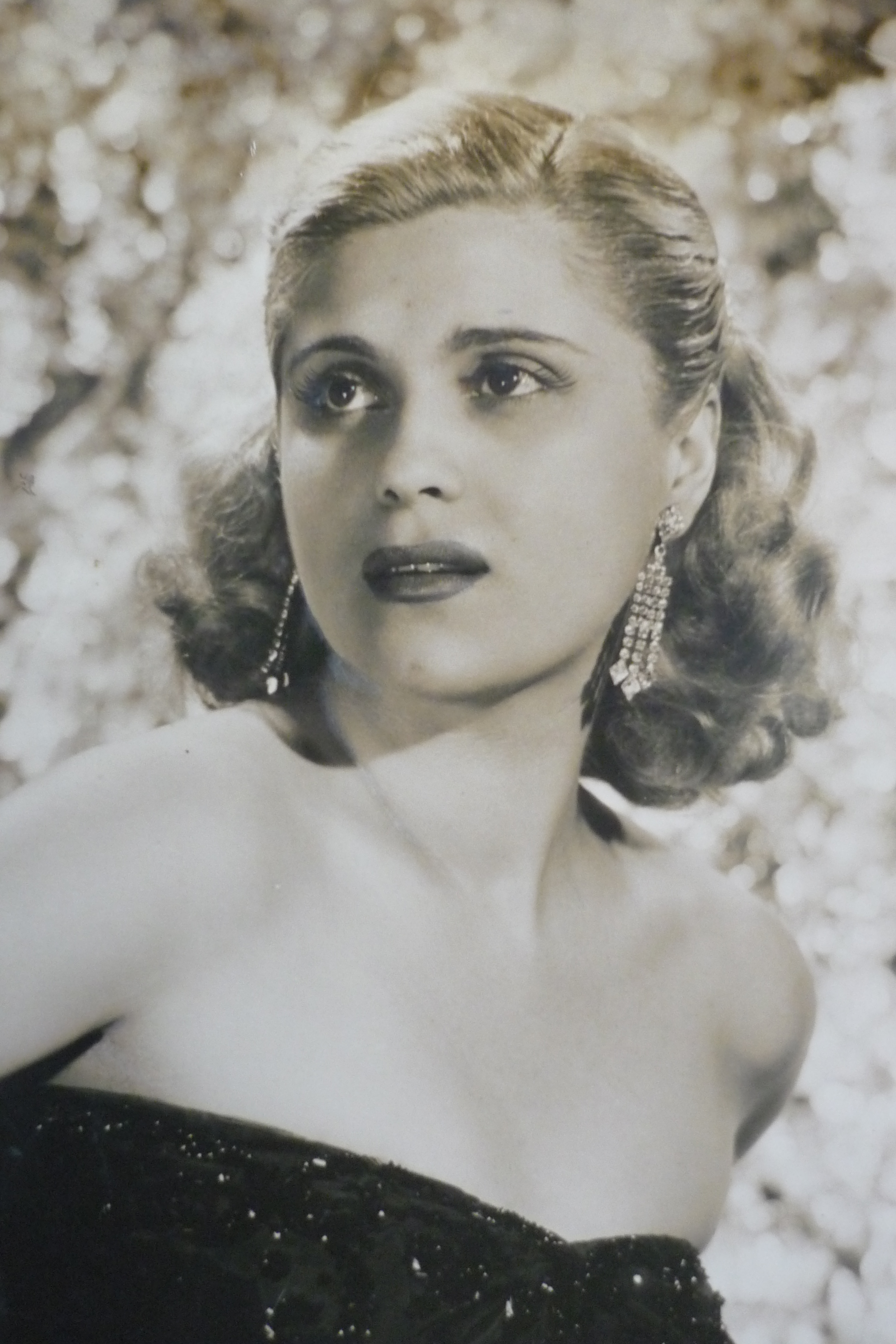 Carmen del Moral